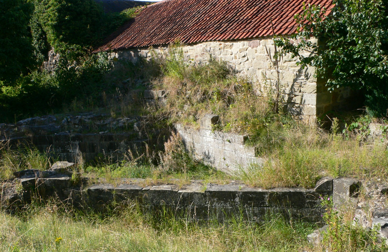 Ruins of Melbourne Castle, Melbourne, Derbyshire